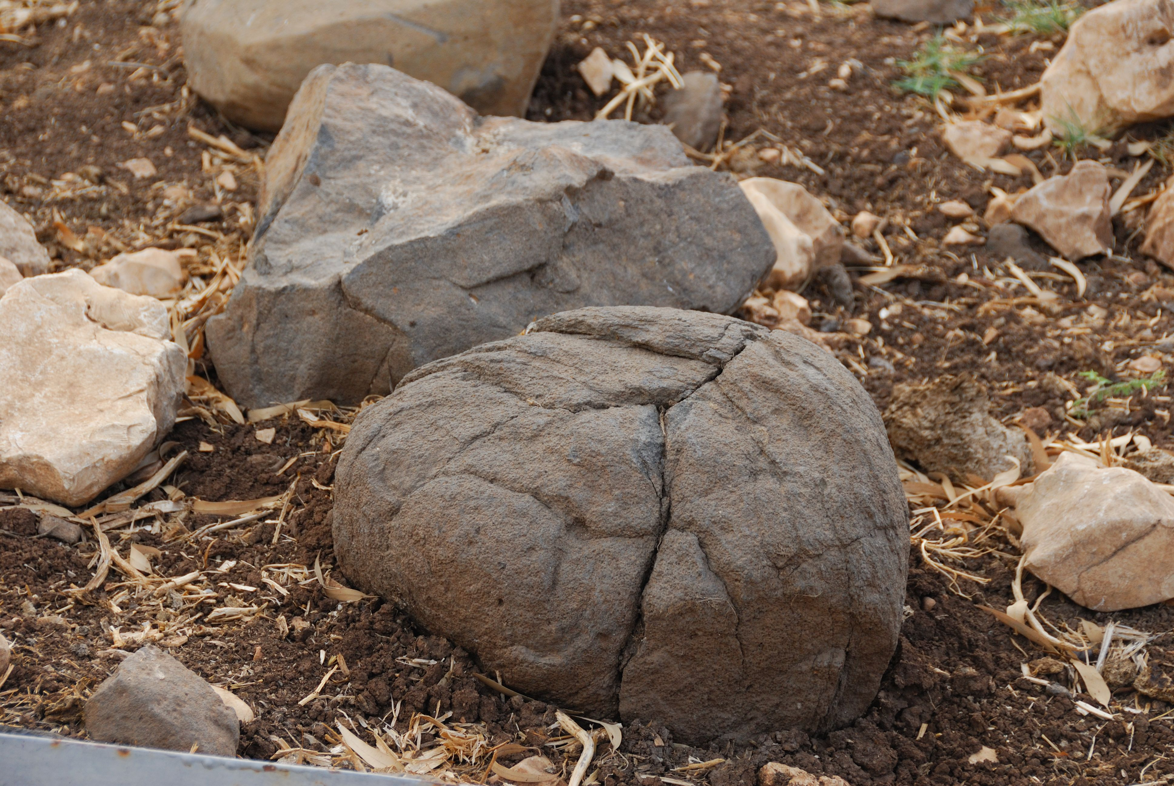 Volcanic bomb at Horns of Hattin, Israel